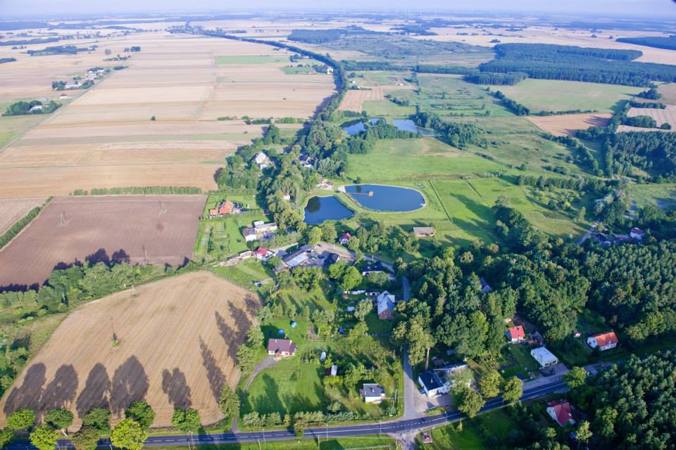 zdjecie Niezyna z gory.